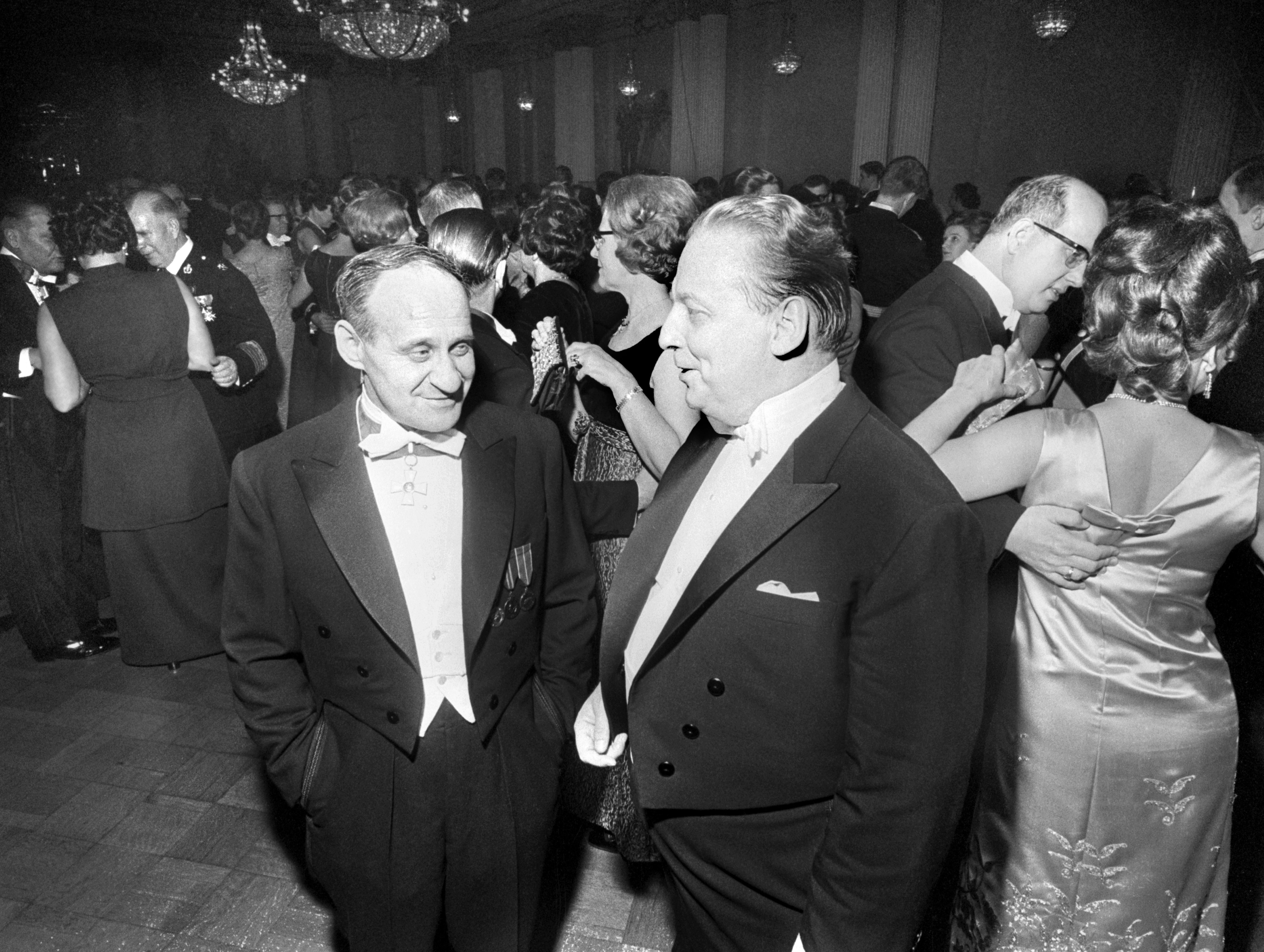 Photograph of the Finnish writer Väinö Linna and his translator Nils-Börje Stormbom at the Independece Day reception at the Presidential Palace in Helsinki.